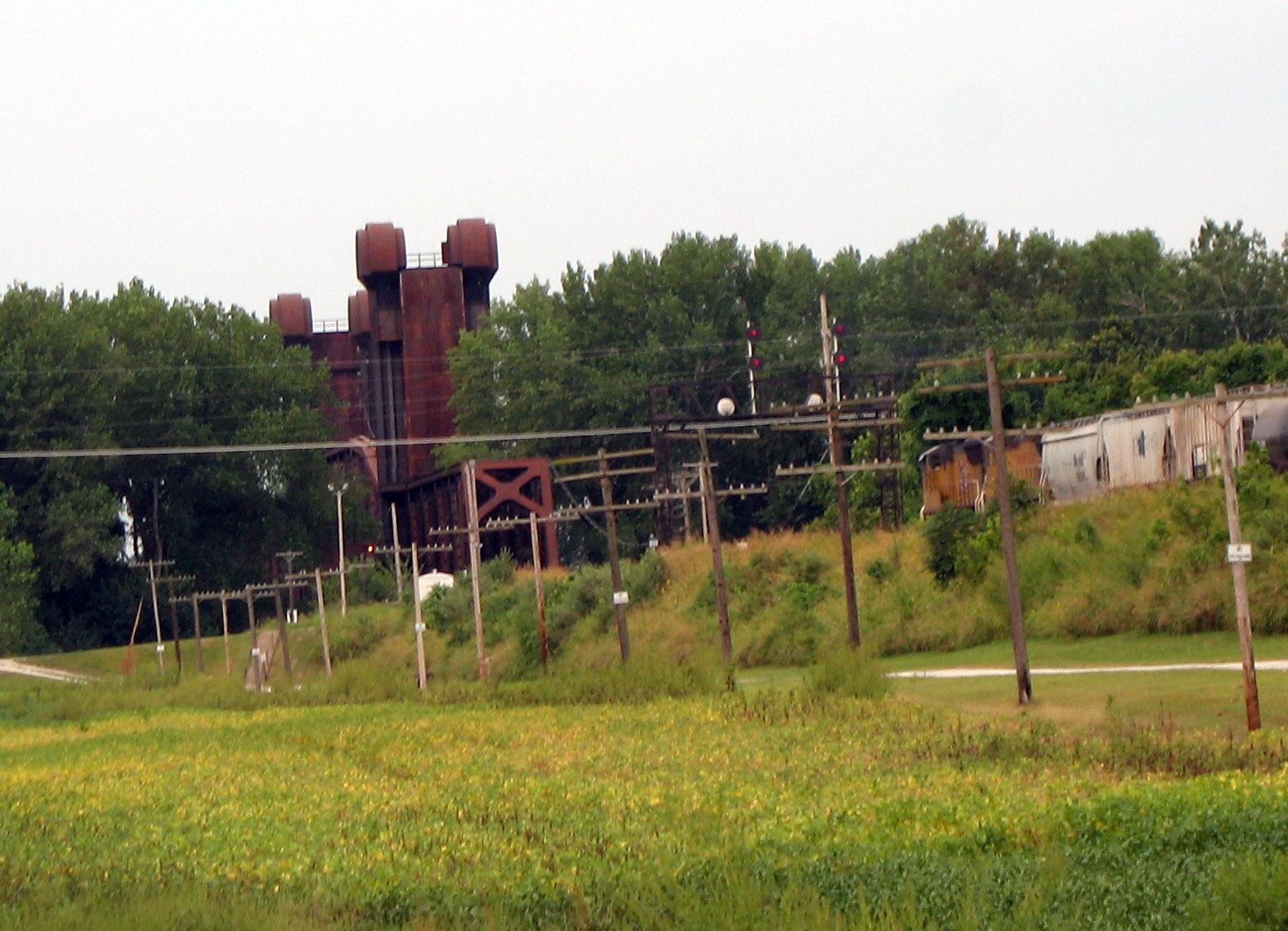 Harry S. Truman Bridge. Photo by poster in September 2007.